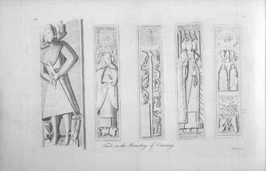 Illustration was taken from Thomas Pennant's A Tour in Scotland, published in the 1760s. It is an illustration of some of the tombs found at Oransay Priory. [For full description, see Am Baile.